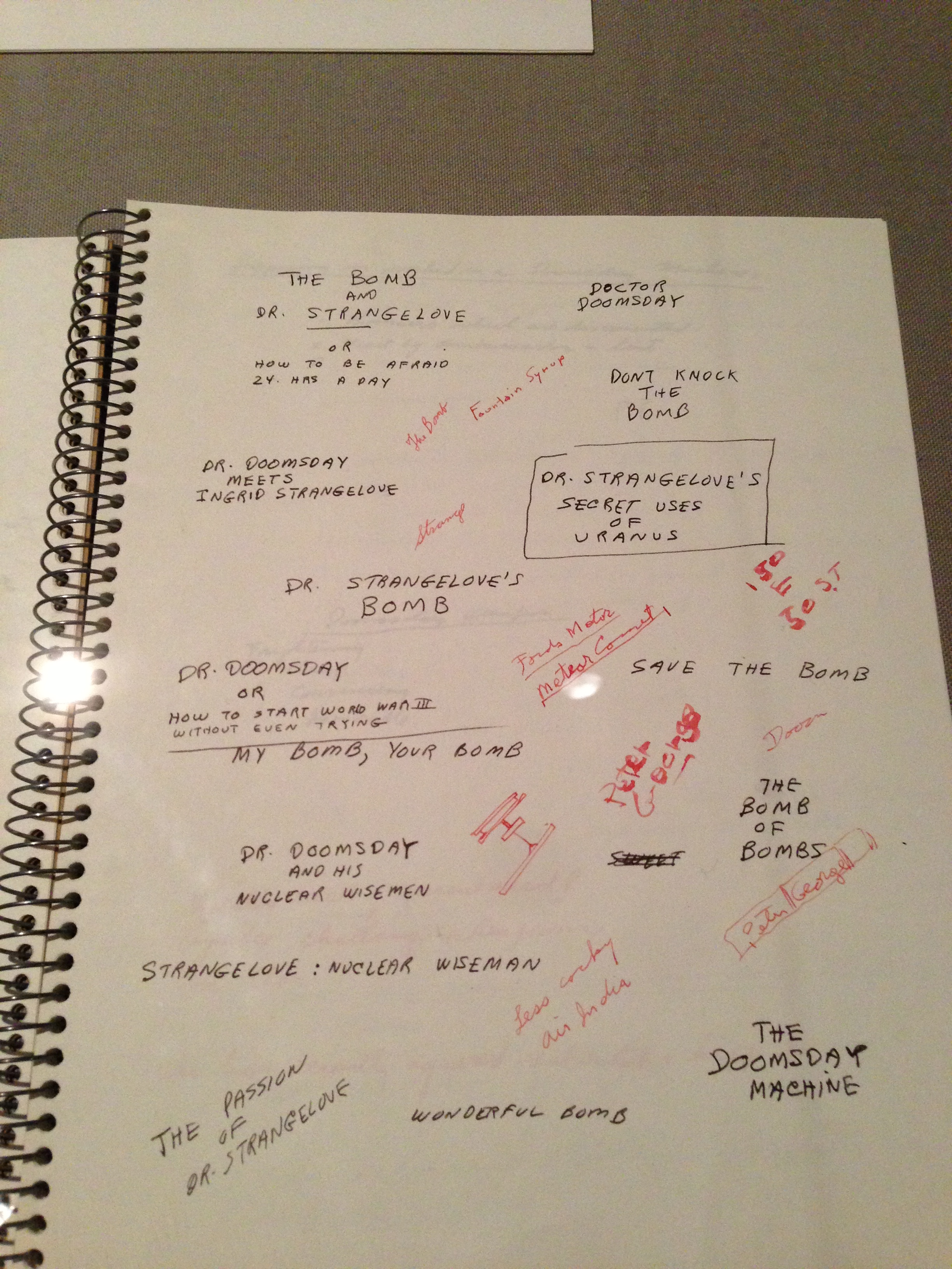 Stanley Kubrick exhibit at Los Angeles County Museum of Art.